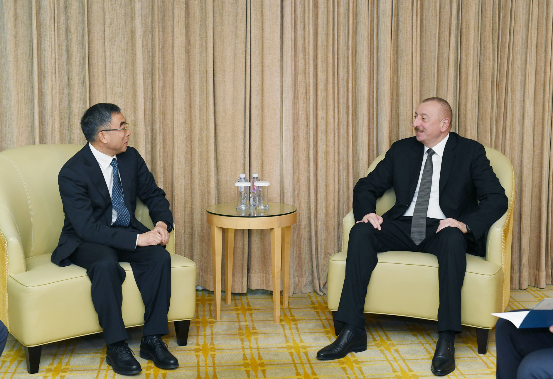 Ilham Aliyev met with Huawei chairman in Beijing